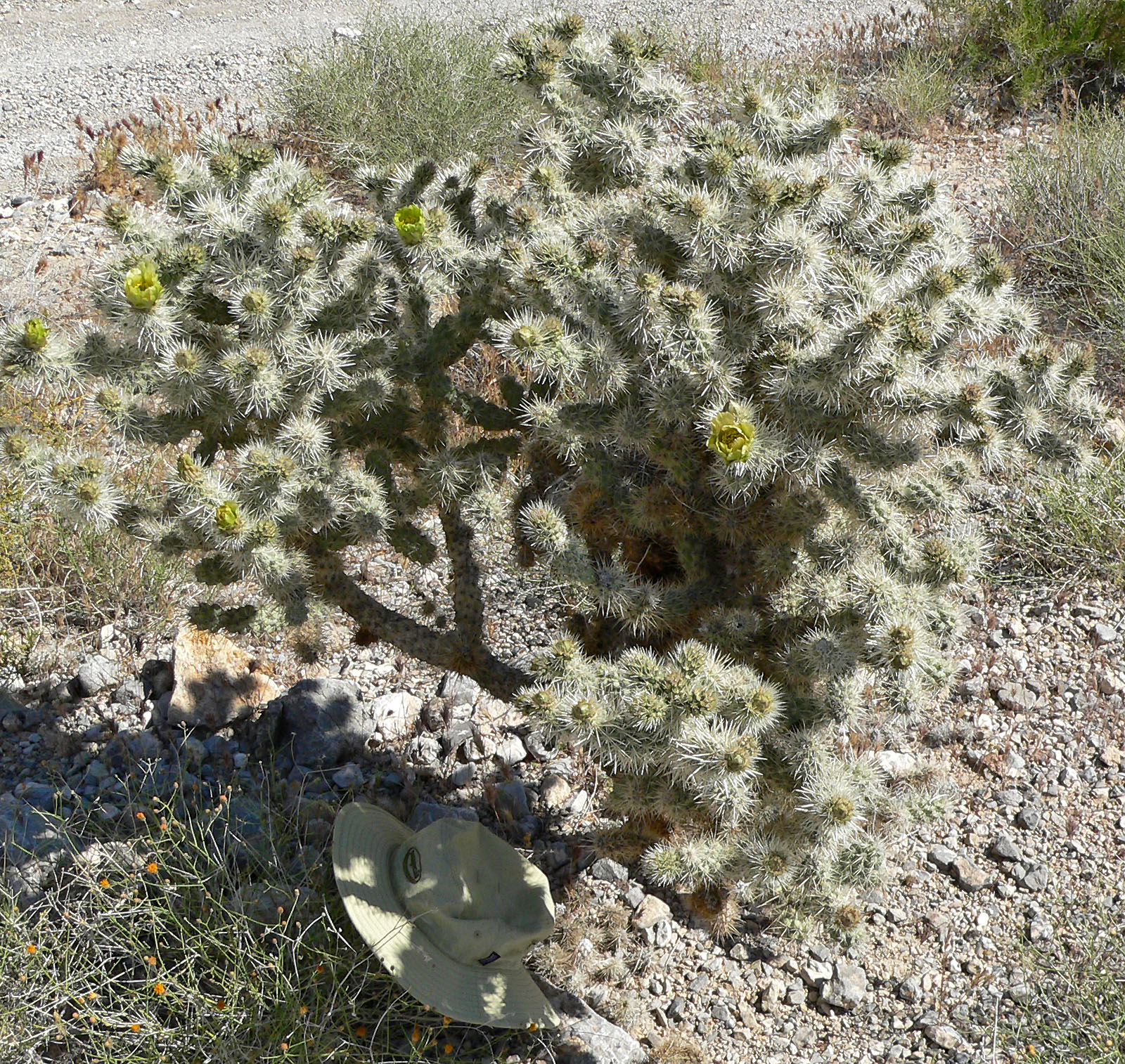 Photo of Cylindropuntia echinocarpa (golden or silver cholla) in the desert at the west end of Cheyenne Ave, Las Vegas, Nevada (Lone Mountain area)